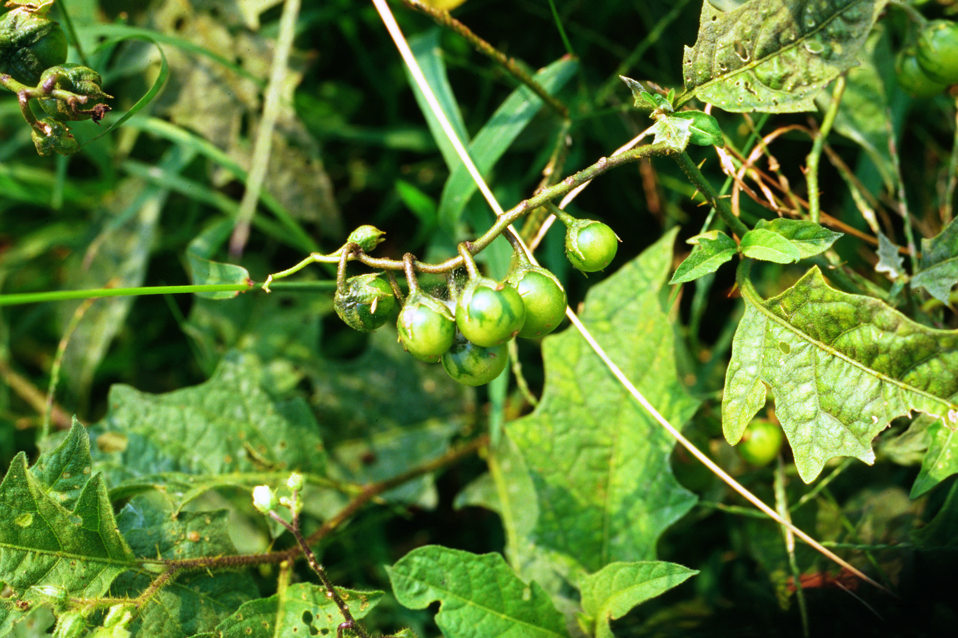 Branch and fruits of Solanum carolinense